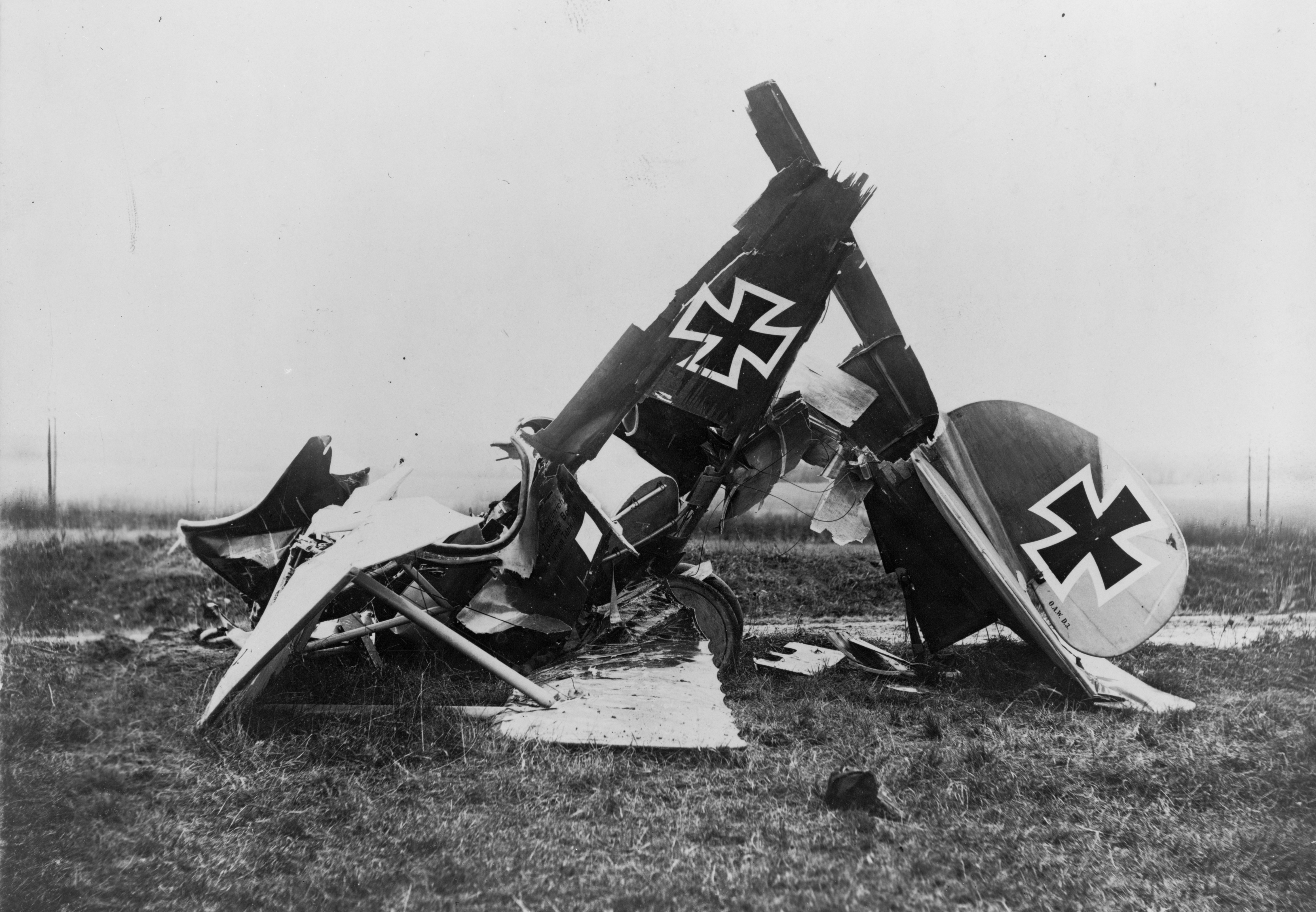 Wreck of a German Albatros D.III fighter at Flanders (Belgium) in 1917. "O.A.W. D.3." is written on the tailplane, identifying this plane as one produced at the "Ostdeutsche Albatros-Werke" at Schneidemühl, Posen, Germany (today Pila in Poland).